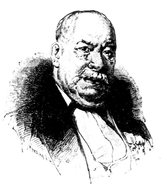 Ilias Kechagias (1810-1885): Greek shipowner, illustration from Imerologion Skokou 1887